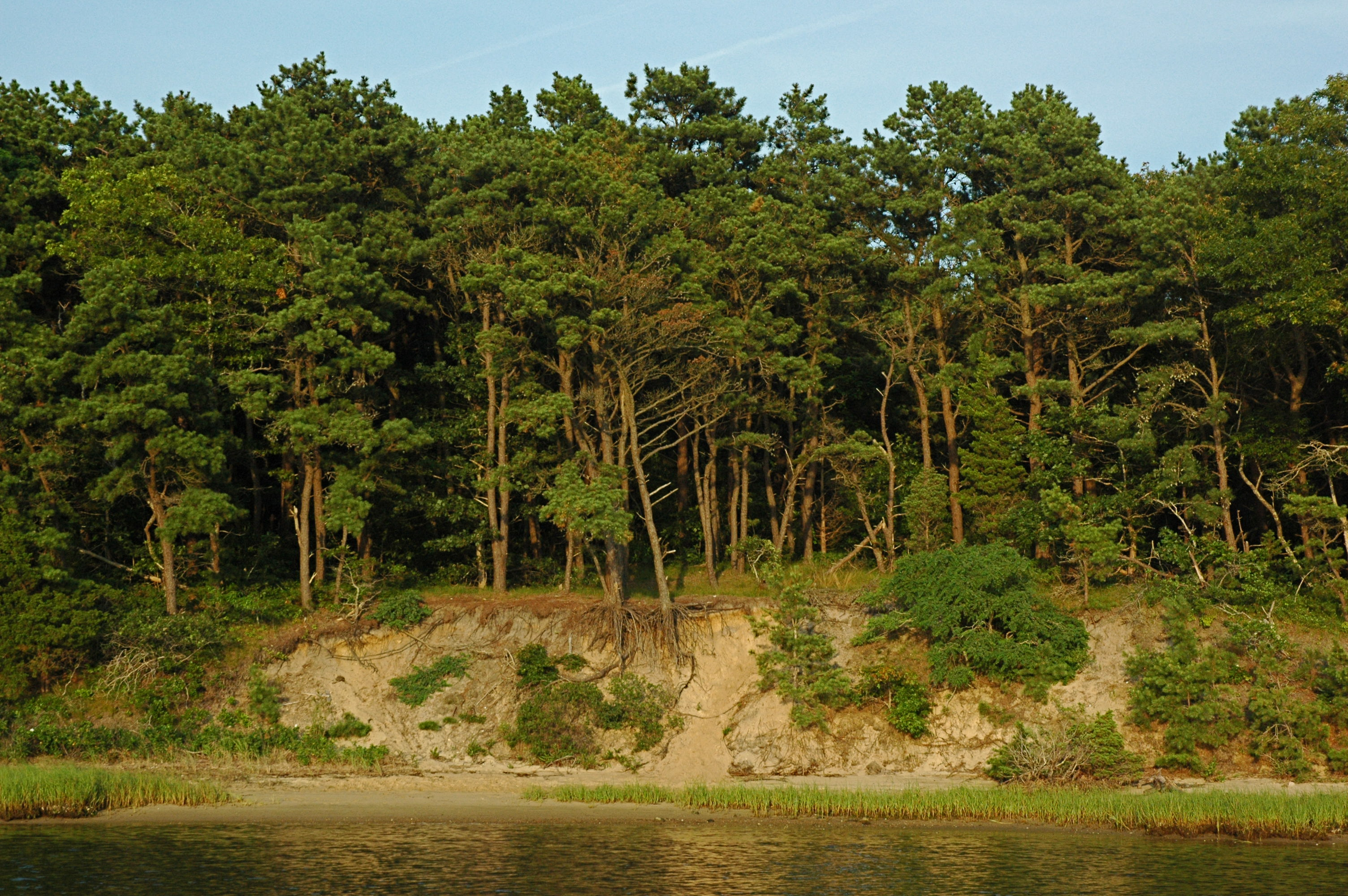 Pitch Pine Pinus rigida forest, Washburn Island, Massachusetts, USA